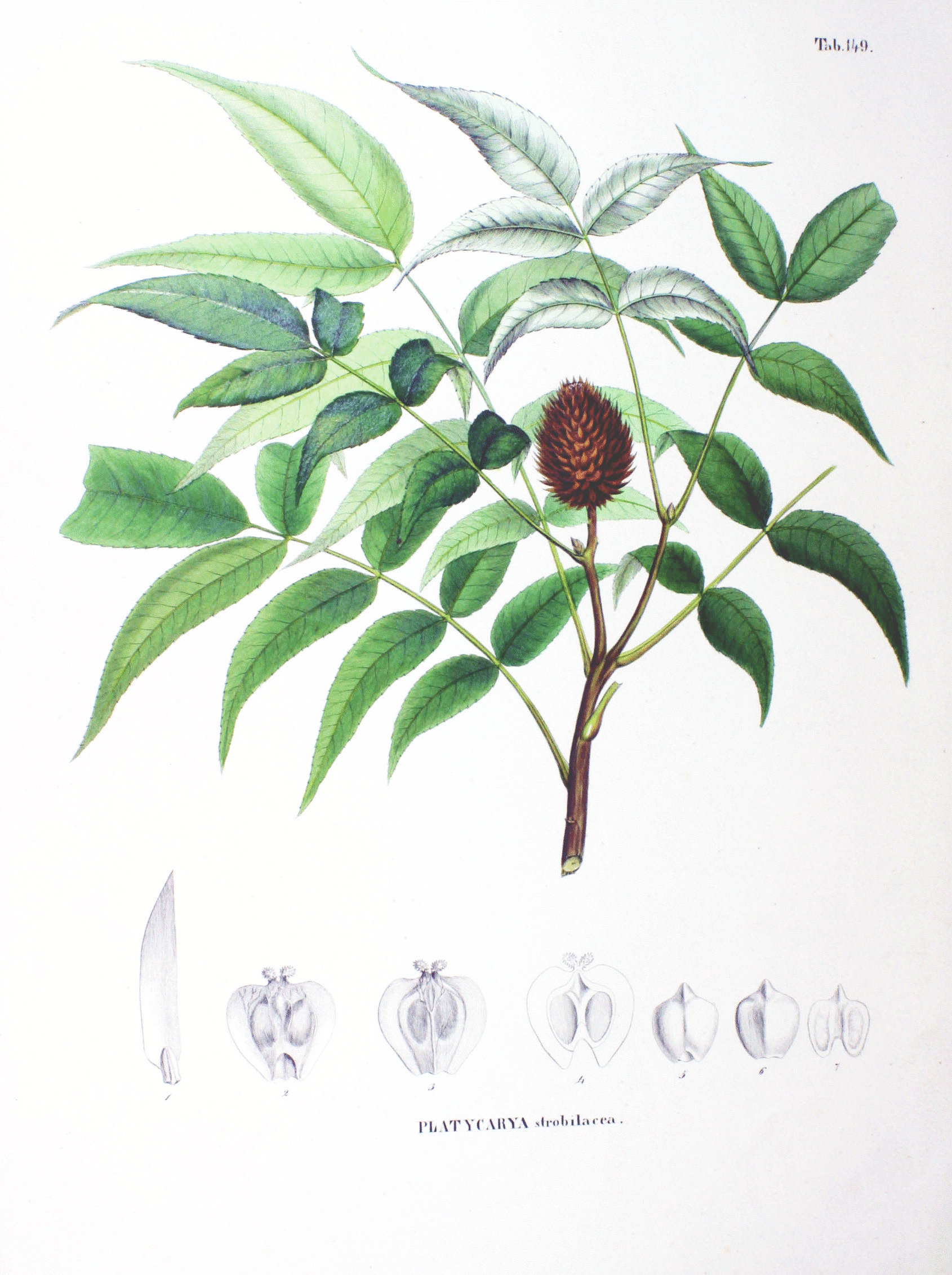 Plate from book